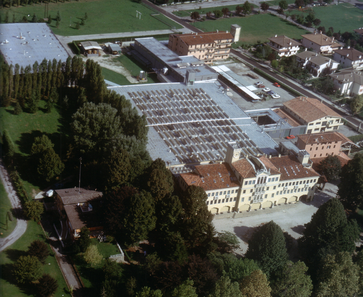 Air View of Calegaro company